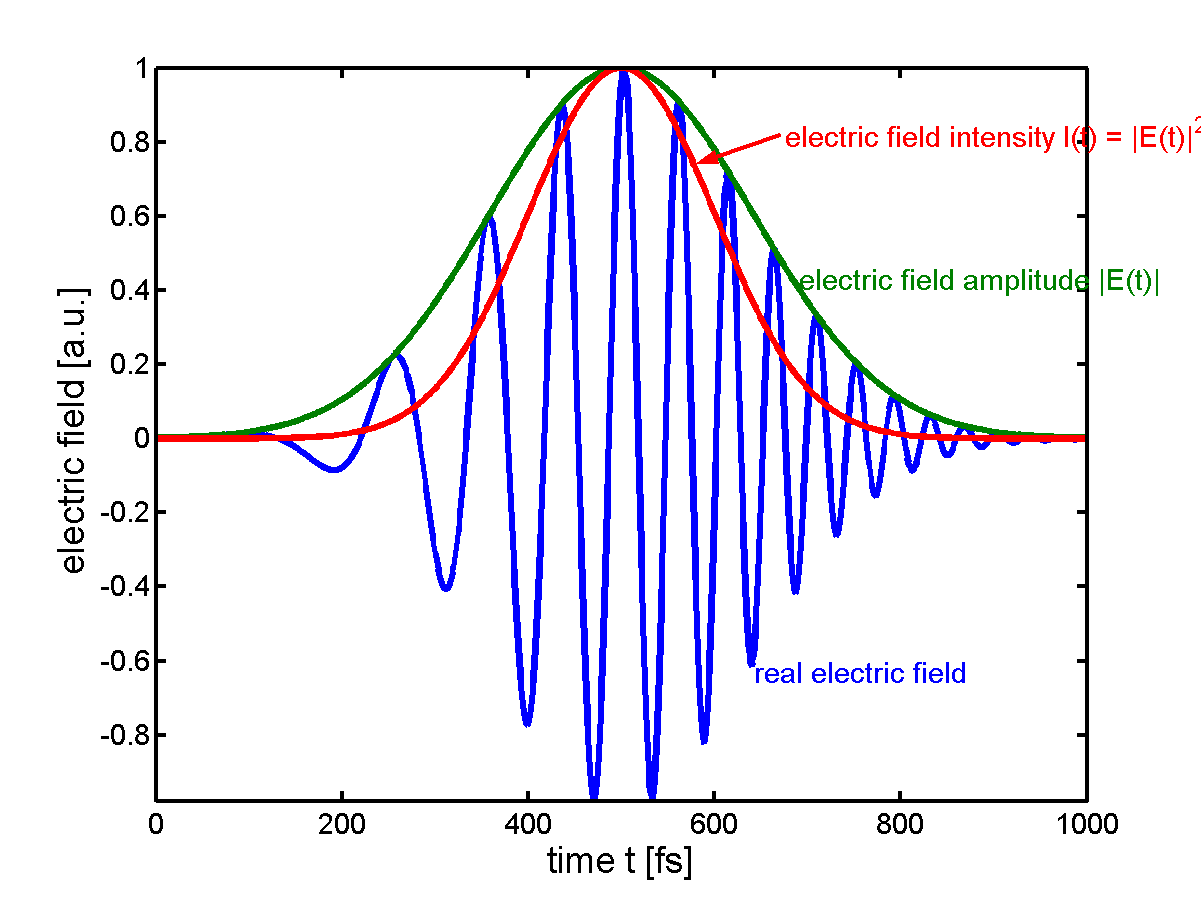 chirped ultrashort pulse created today in MATLAB -- Pgabolde 23:09, 17 Dec 2004 (UTC)